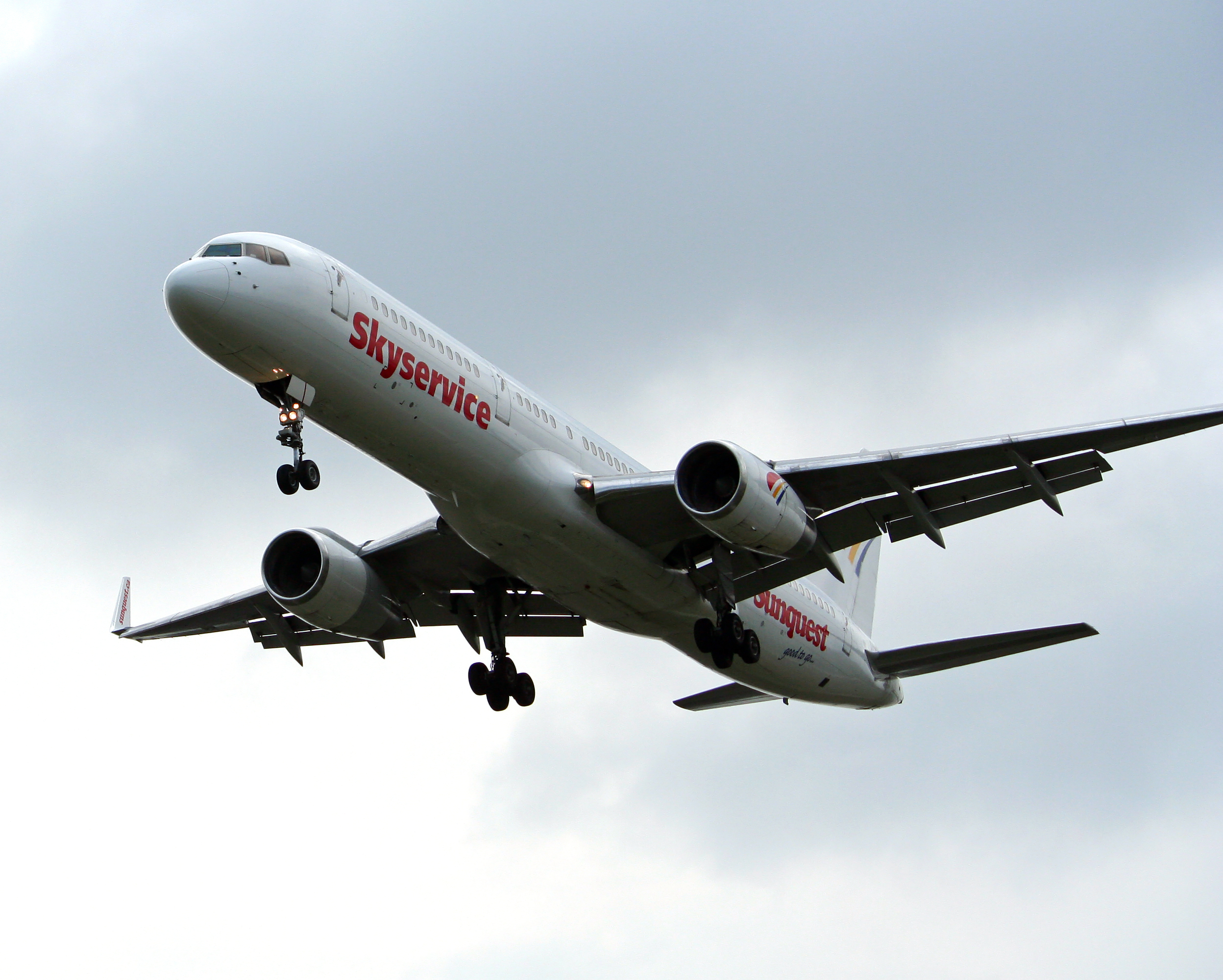 Skyservice charter flight, Toronto-Zagreb every thursday in summer season.